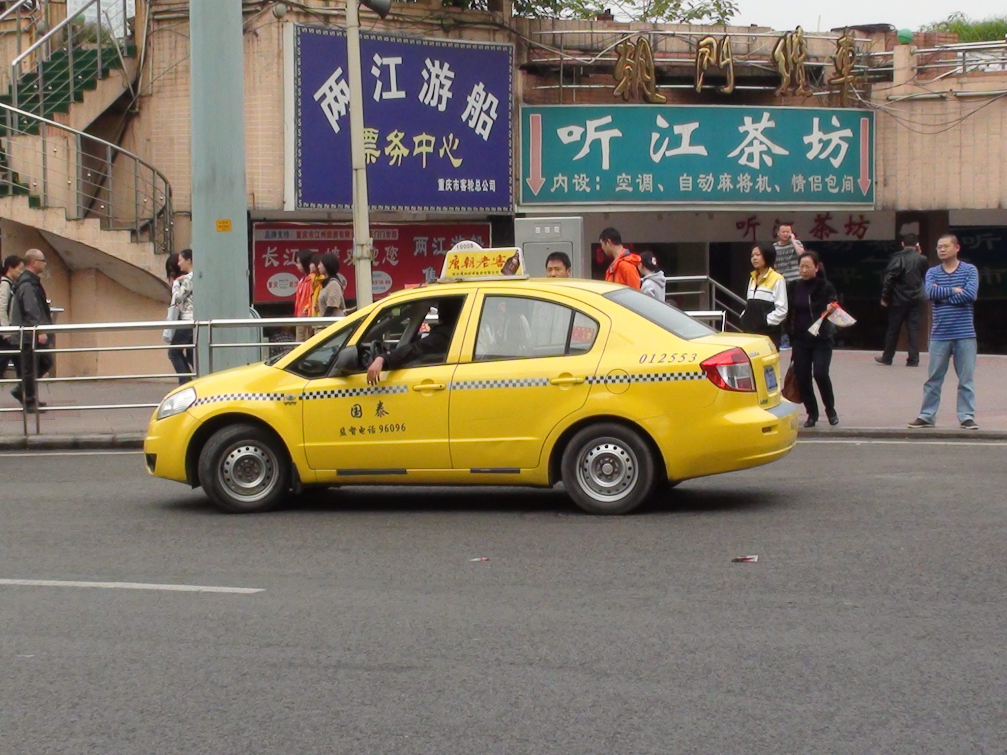 TAXI OF CHONGQING，CHINA